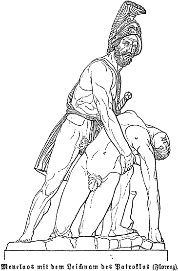 The so-called "Pasquino Group" (several replicas of which are known), perhaps Menelaus bearing the corpse of Patroclus. Marble, Roman copy of the Flavian Era after a Hellenistic original of the 3rd century BC, with modern restorations. Found in Rome; in the Medici collections in Florence, 1570; installed in the Loggia dei Lanzi since 1741.